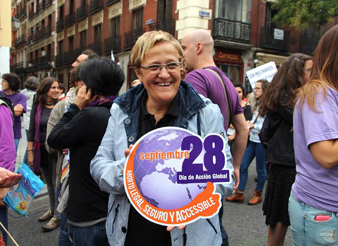 Angeles Alvarez en la manifestación del día por el derecho a un aborto legal y seguro 28 sept 2014